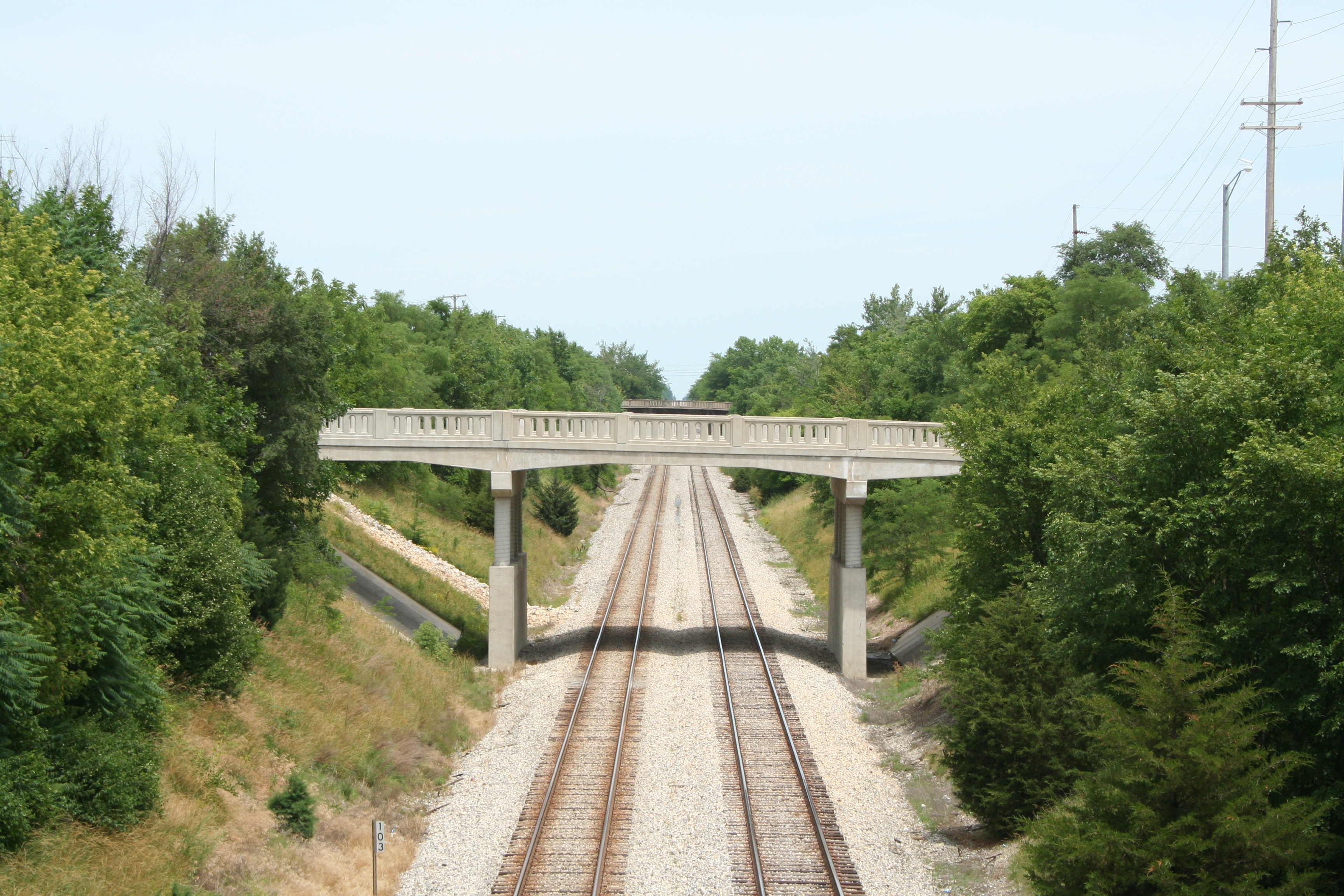 Road_Bridges_over_CN_main_line_Paxton_Illinois.jpg